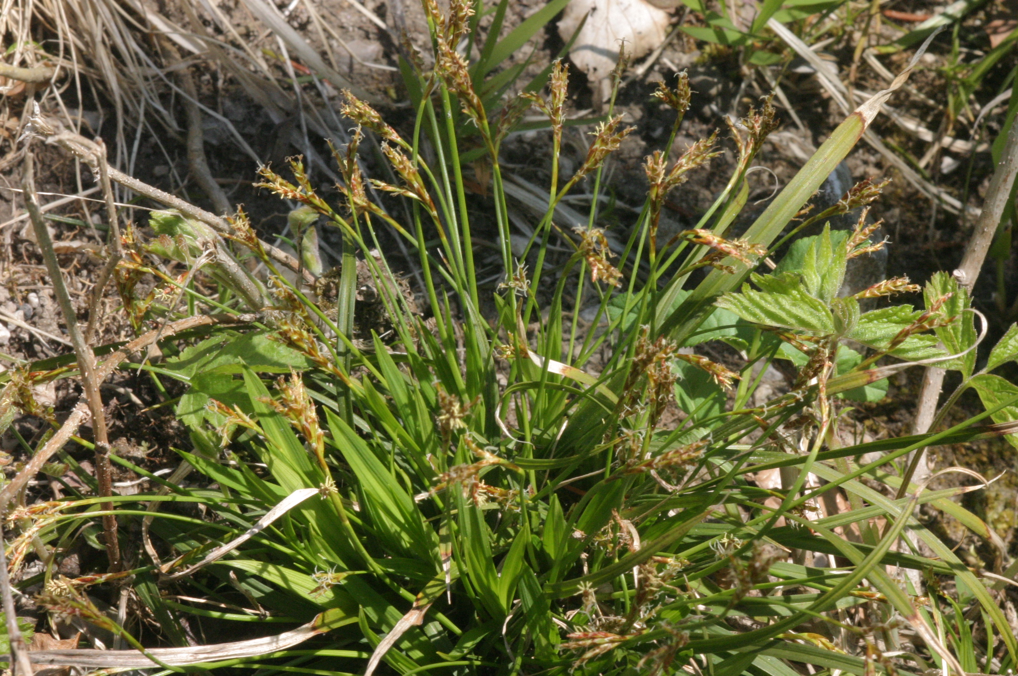 Carex ornithopoda